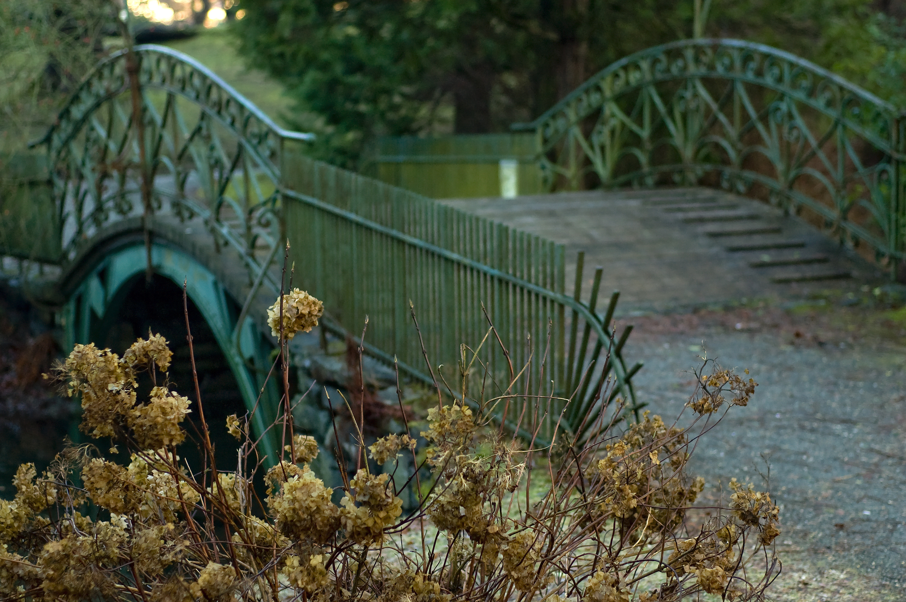 Bridge in Nygårdsparken, a park in Bergen, Norway.